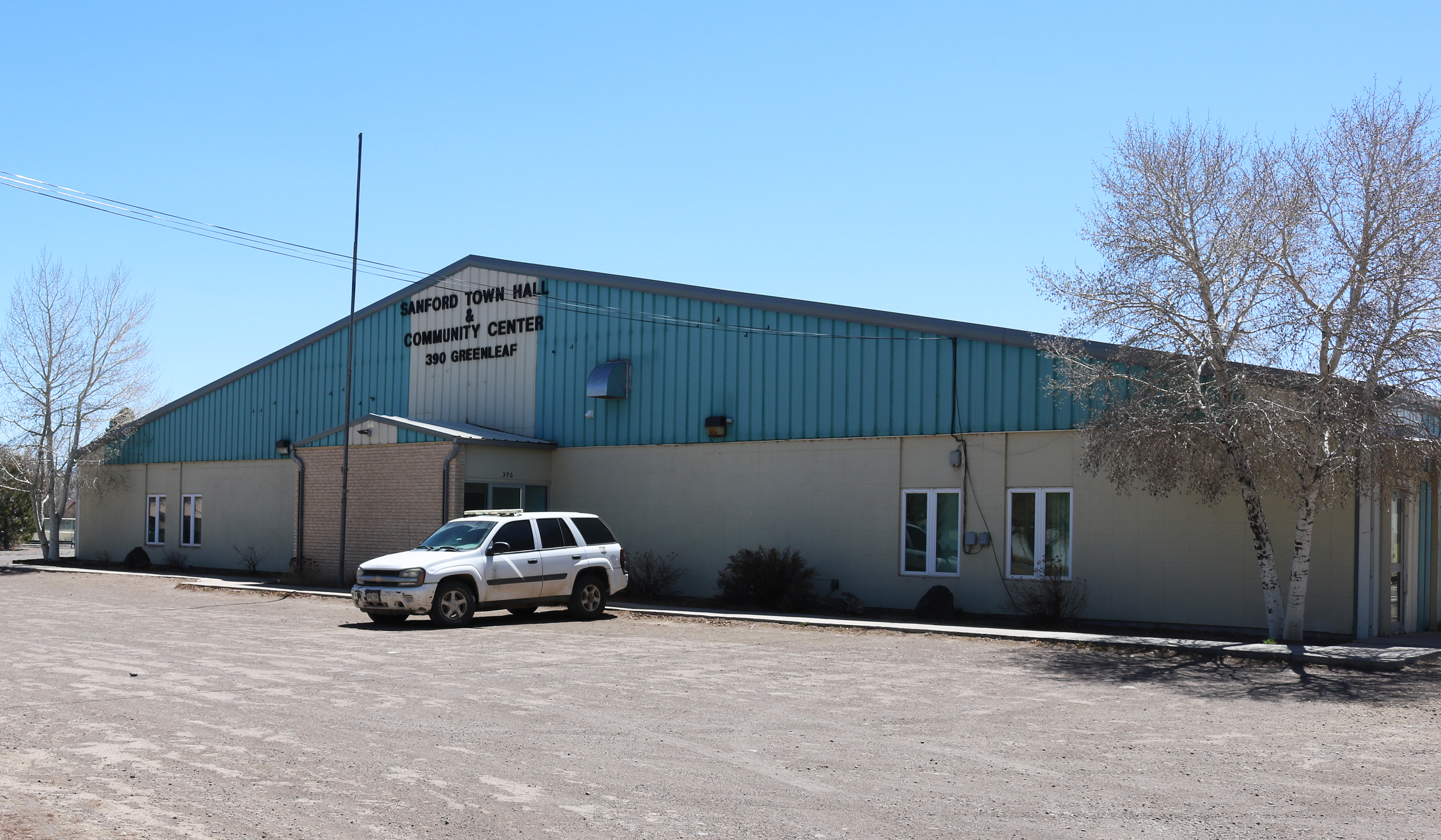 The Sanford Town Hall and Community Center, located at 390 Greenleaf Street in Sanford, Colorado.